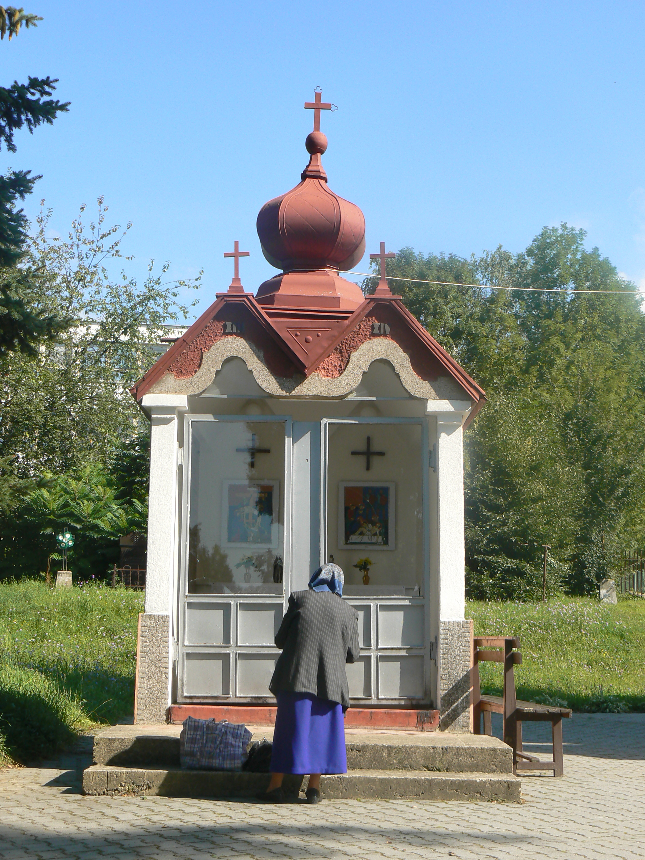 Greekcatholic church of Madonna´s Ascension - from 1767, Stations of the Cross, Humenné, Slovakia